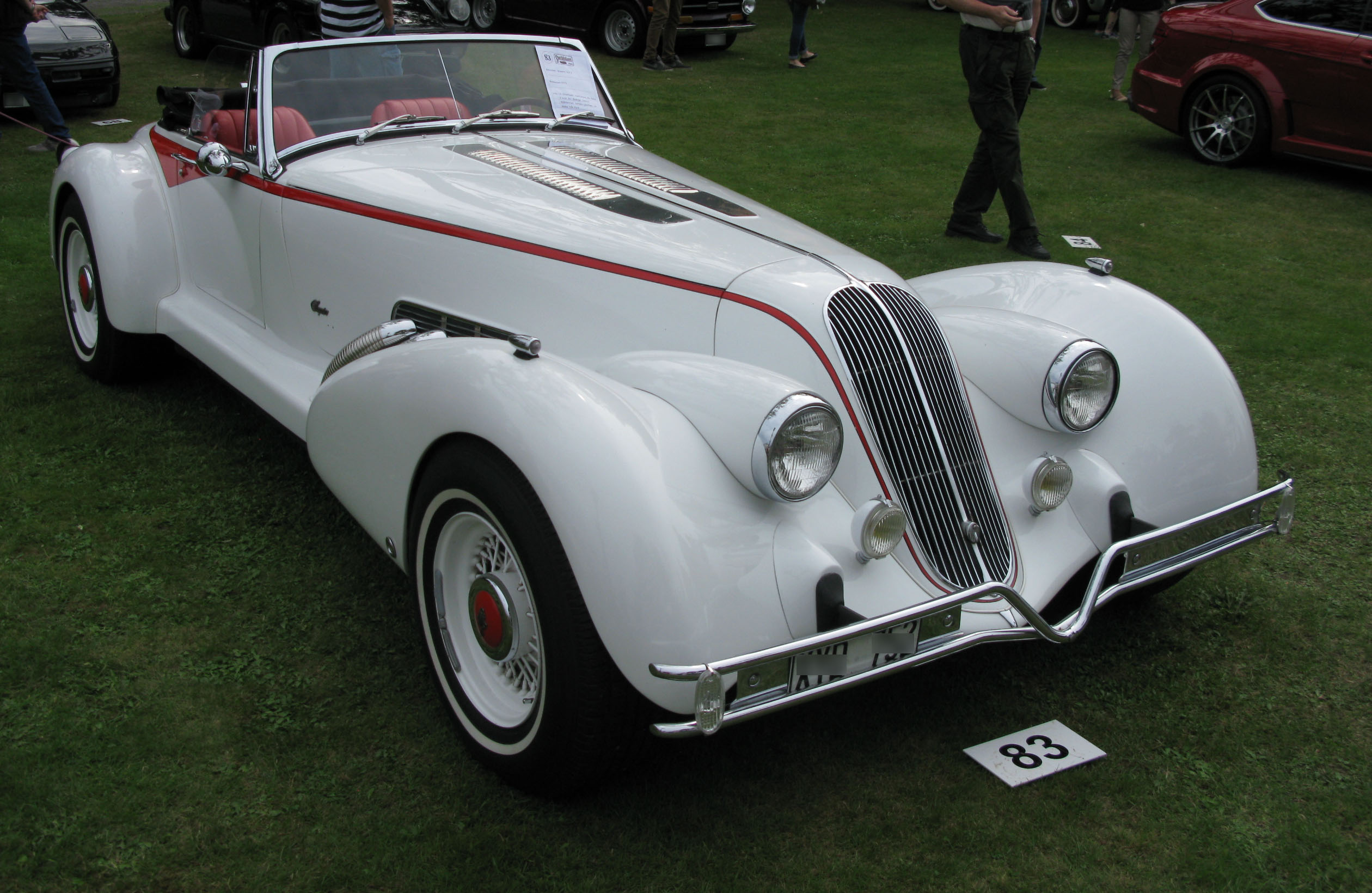 1979 Sceptre 6.6S, one of only 15 built on Ford Torino base.